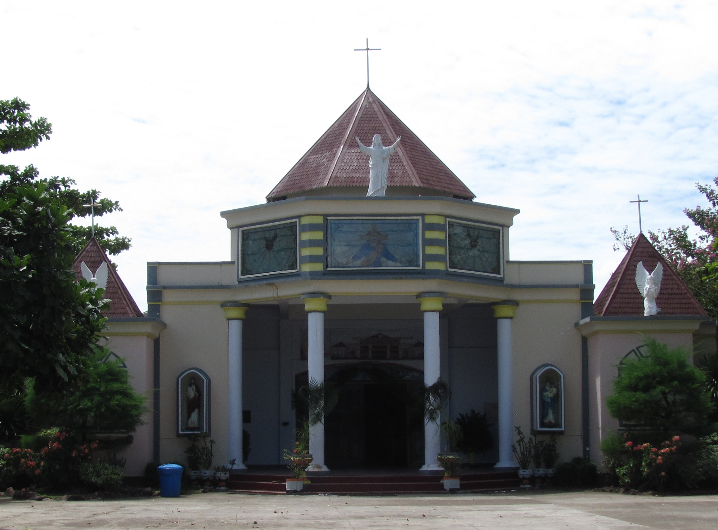 Roman Catholic Church, City of Sumbawa Besar, Sumbawa Island, Indonesia